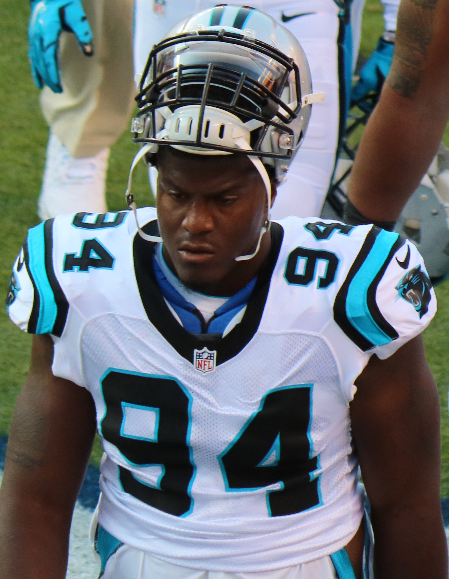 Kony Ealy, a player on the National Football League.